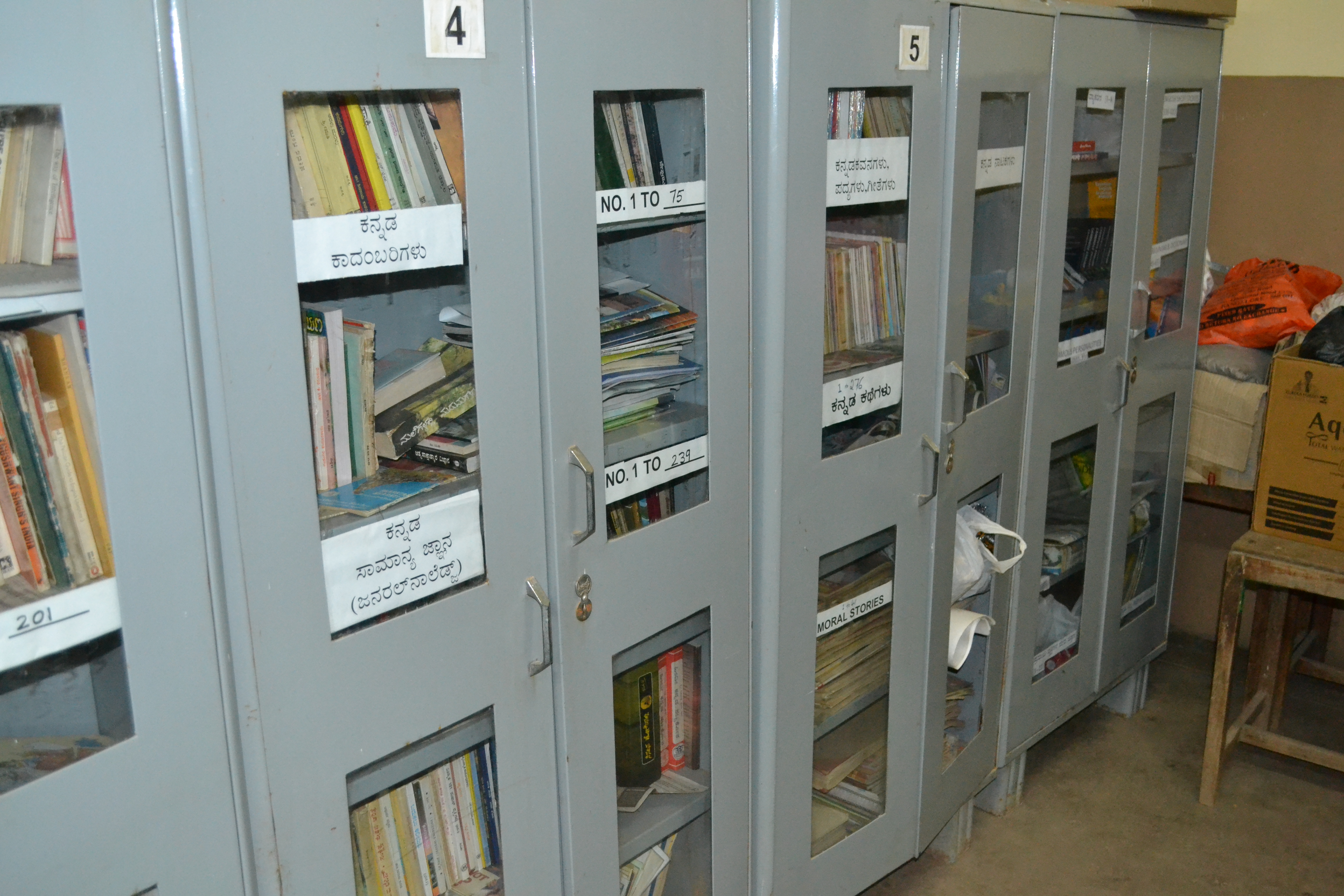 Mobile Library 2012 program by Singing Skylarks